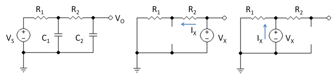 Schematics for open-circuit time constant method